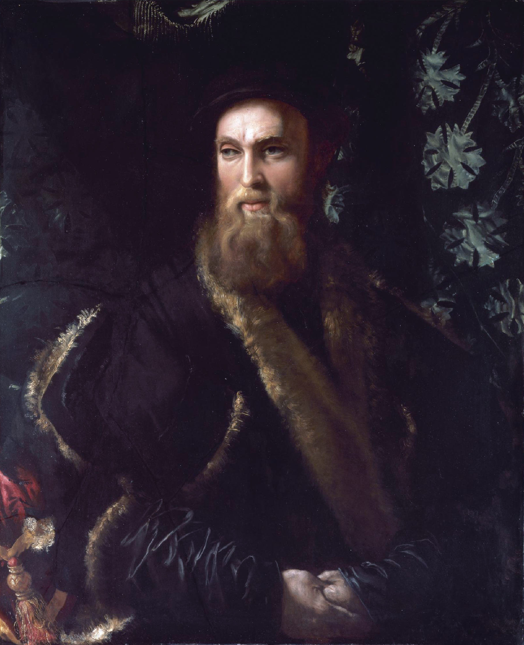 Portrait of Bindo Altoviti (1491-1584)